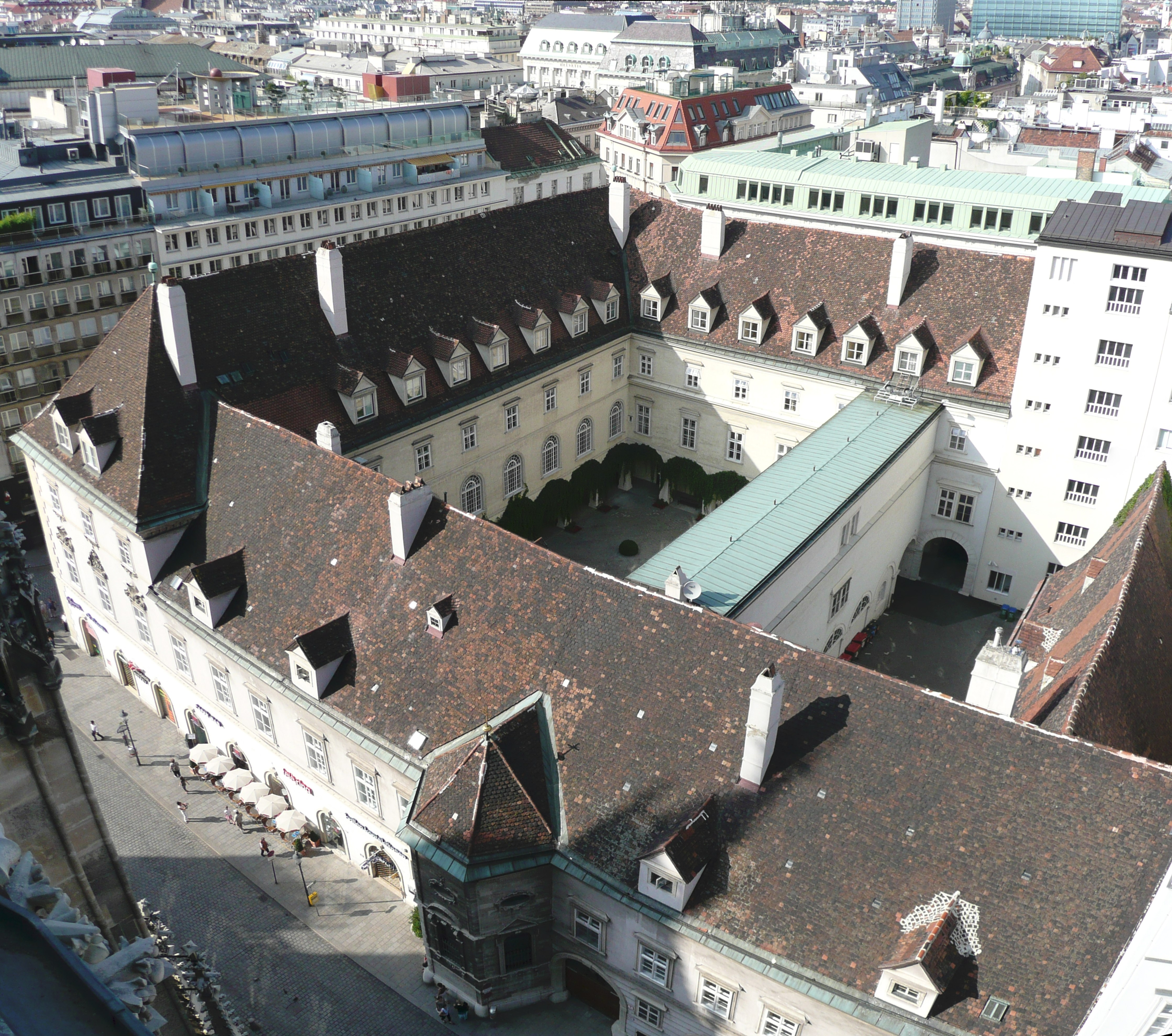 Episcopal palace in Vienna, seen from St. Stephen's Cathedral.